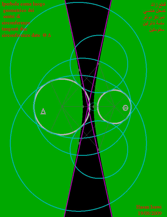 Hyperbole as a locus of the circles centers of two tangent given circumferences Θ Δ HasanIsawi personal homepage